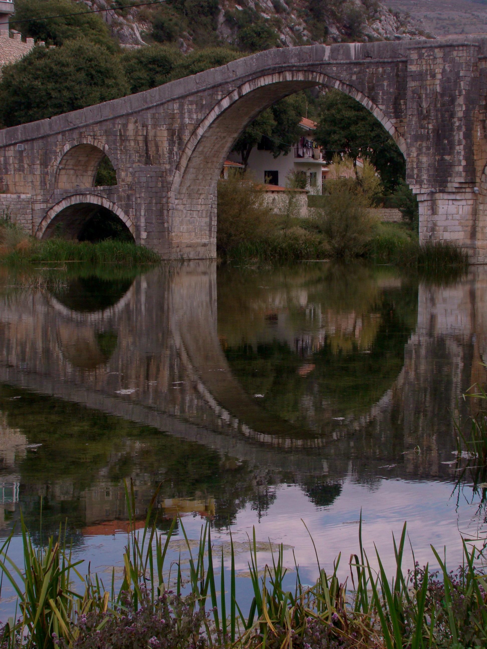 Српски (ћирилица): Арсланагића мост This image was uploaded as part of Trace of Soul 2016.